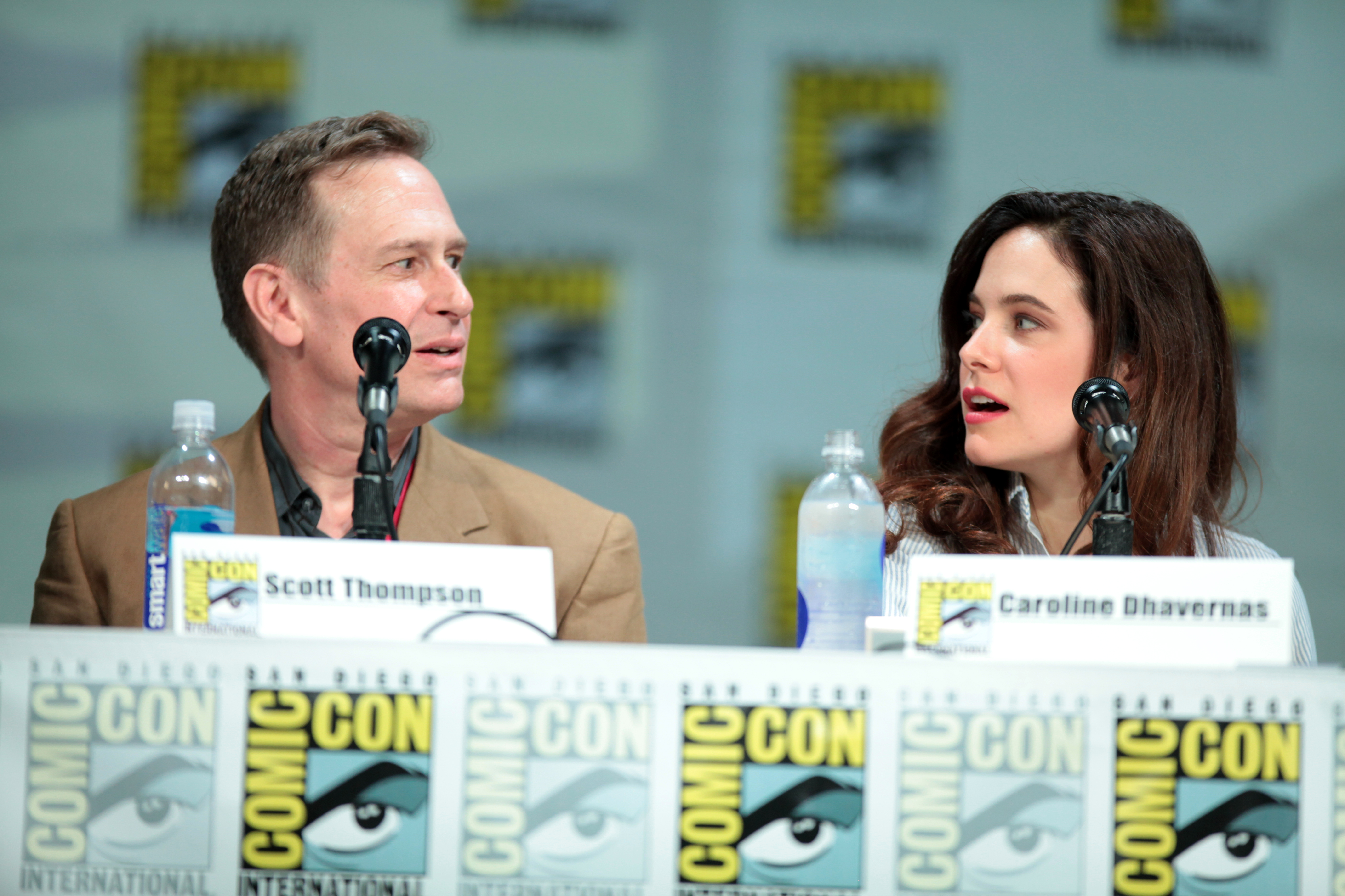 Scott Thompson and Caroline Dhavernas speaking at the 2014 San Diego Comic Con International, for "Hannibal", at the San Diego Convention Center in San Diego, California.